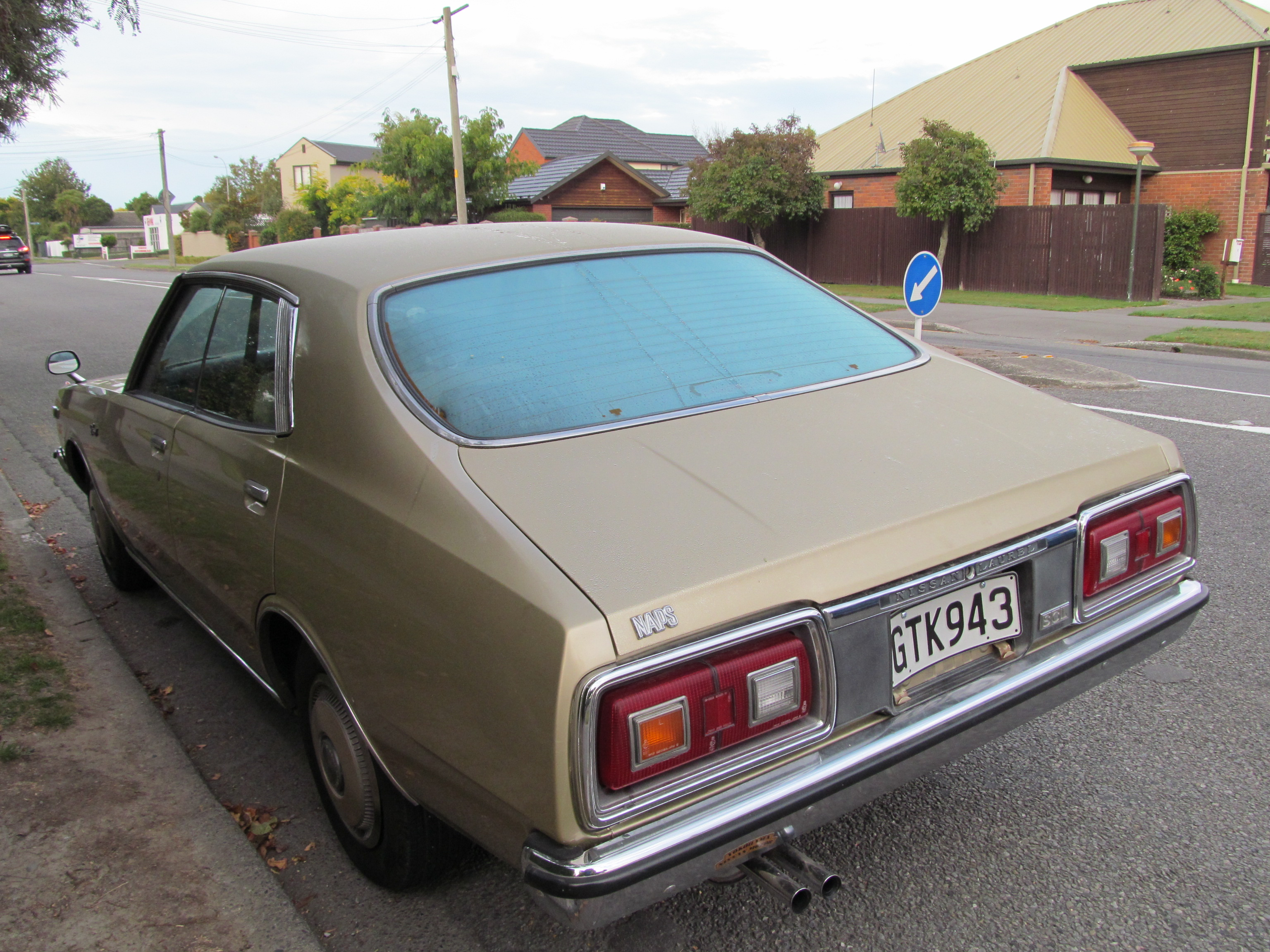 GTK943 This stuck out quite noticeably, as it was quite a big car and not a model we saw in any great numbers in New Zealand. The light gold colour looked good on it.